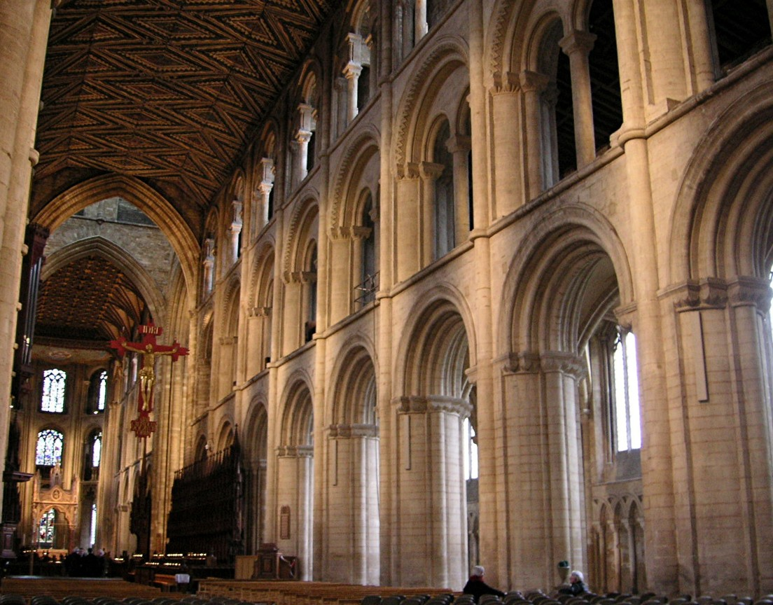 Peterborough Cathedral, Norman Interior, looking east